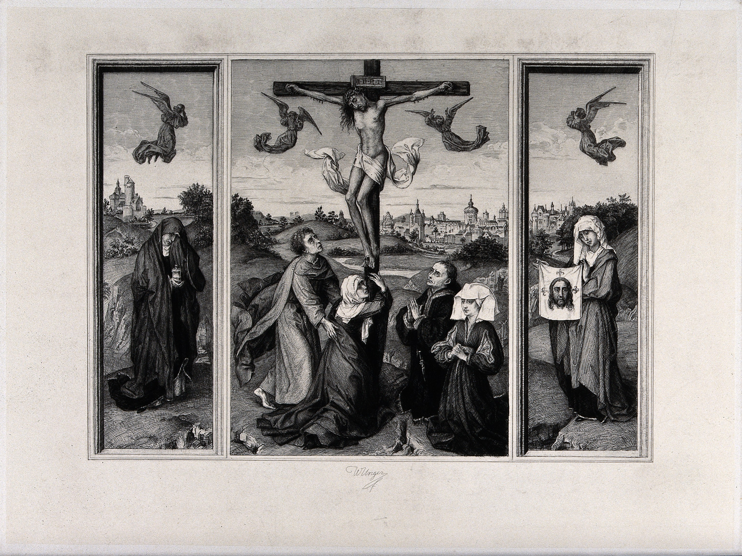 The crucifixion of Christ; the three Maries lament. Etching by W. Unger after R. van der Weyden. Iconographic Collections Keywords: Mary Magdalene; Jesus Christ; William Unger; Roger van der Weyden; Salome; Mary